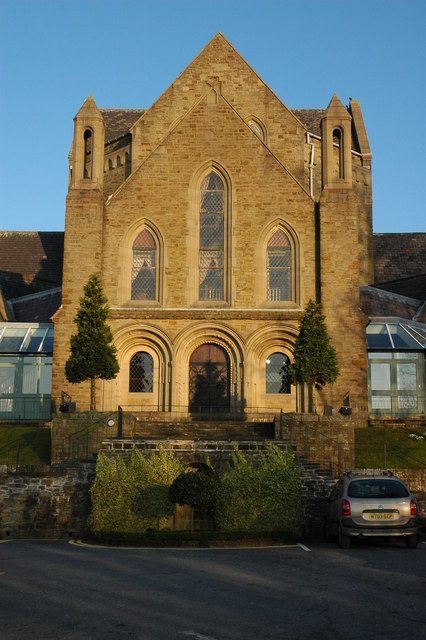 Leisure complex at Shrigley Hall Hotel, Pott Shrigley, Cheshire. Completed in 1938 as the chapel when Shrigley Hall was a college of the Roman Catholic Salesian Order. The former chapel now houses the hotel swimming pool.